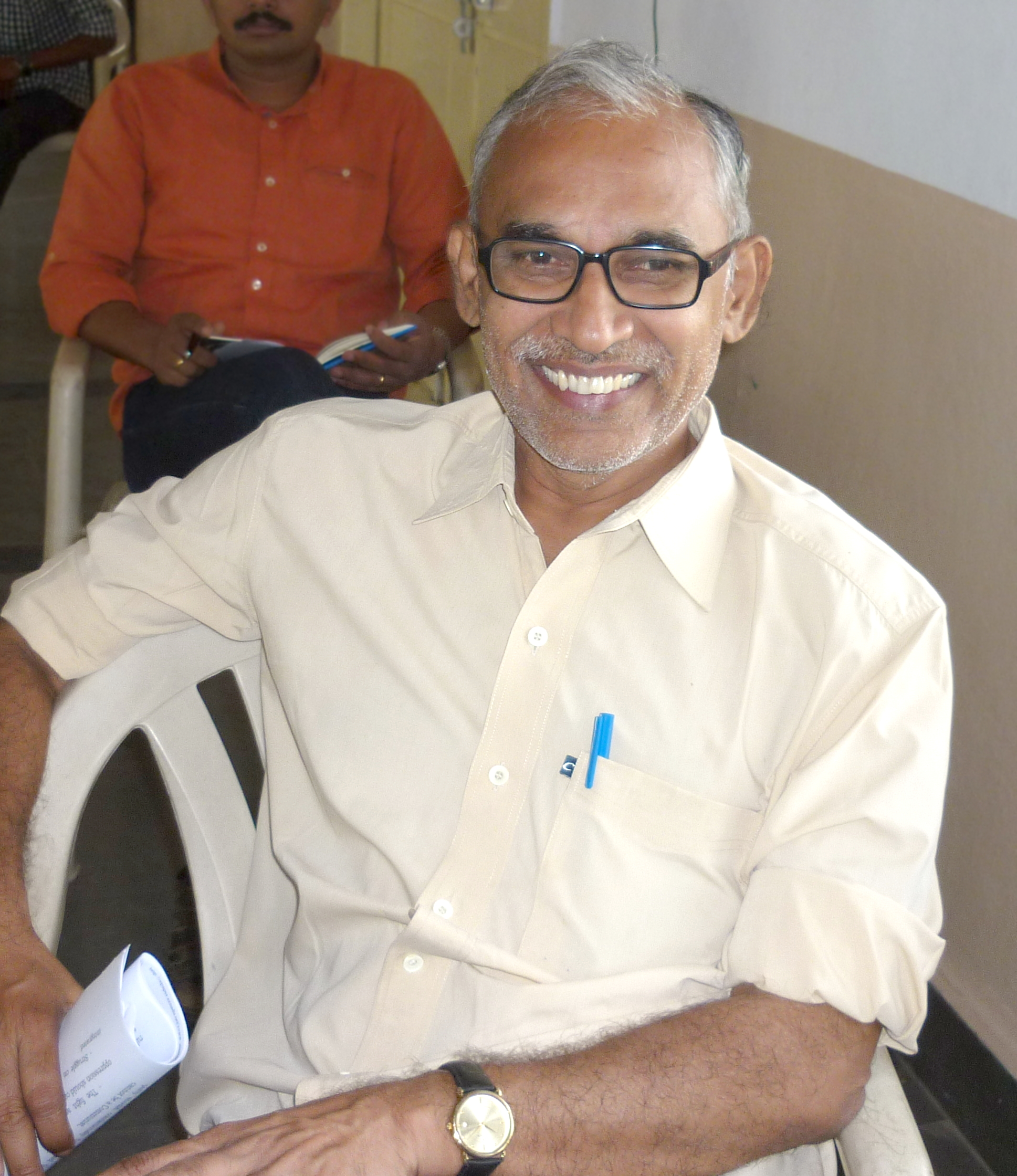 A well known Marxist, B.V. Raghavulu is the State Secretary of the Andhra Pradesh unit of the Communist Party of India (Marxist) in India. He is also a Politburo member of that party.